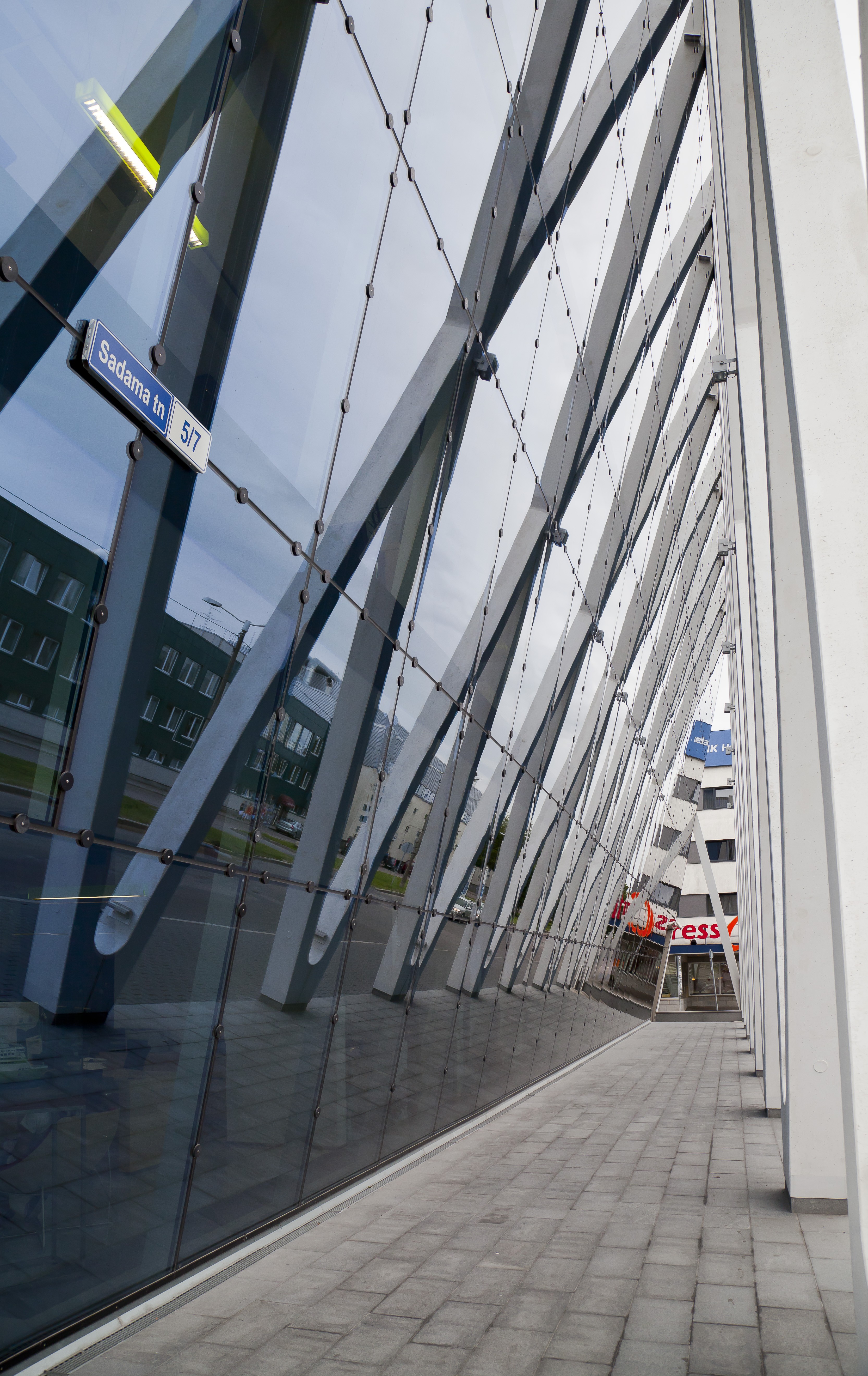 Tallink office building, Tallinn, Estonia